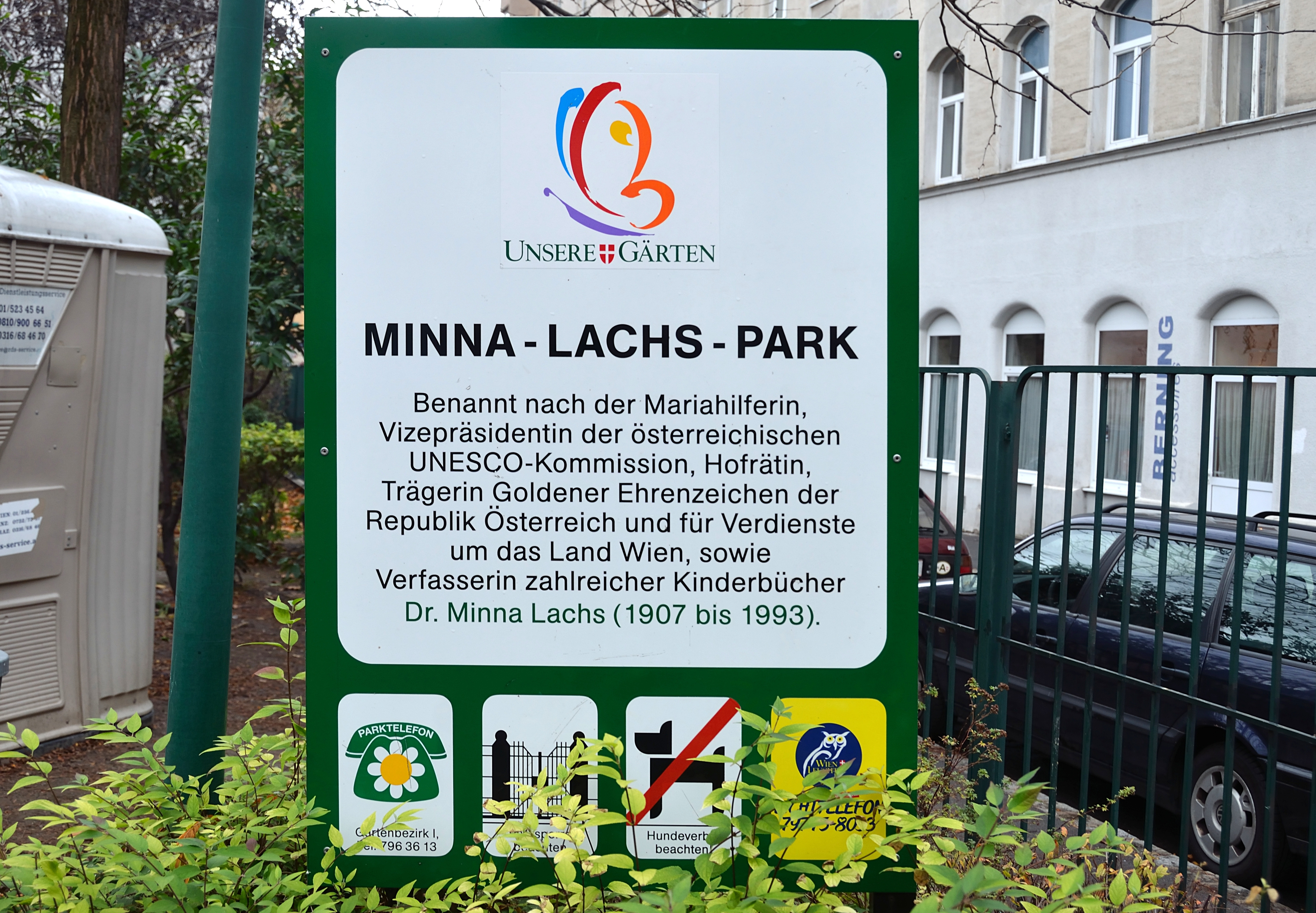 The Minna-Lachs-Park is a small park at Mariahilf, Vienna.